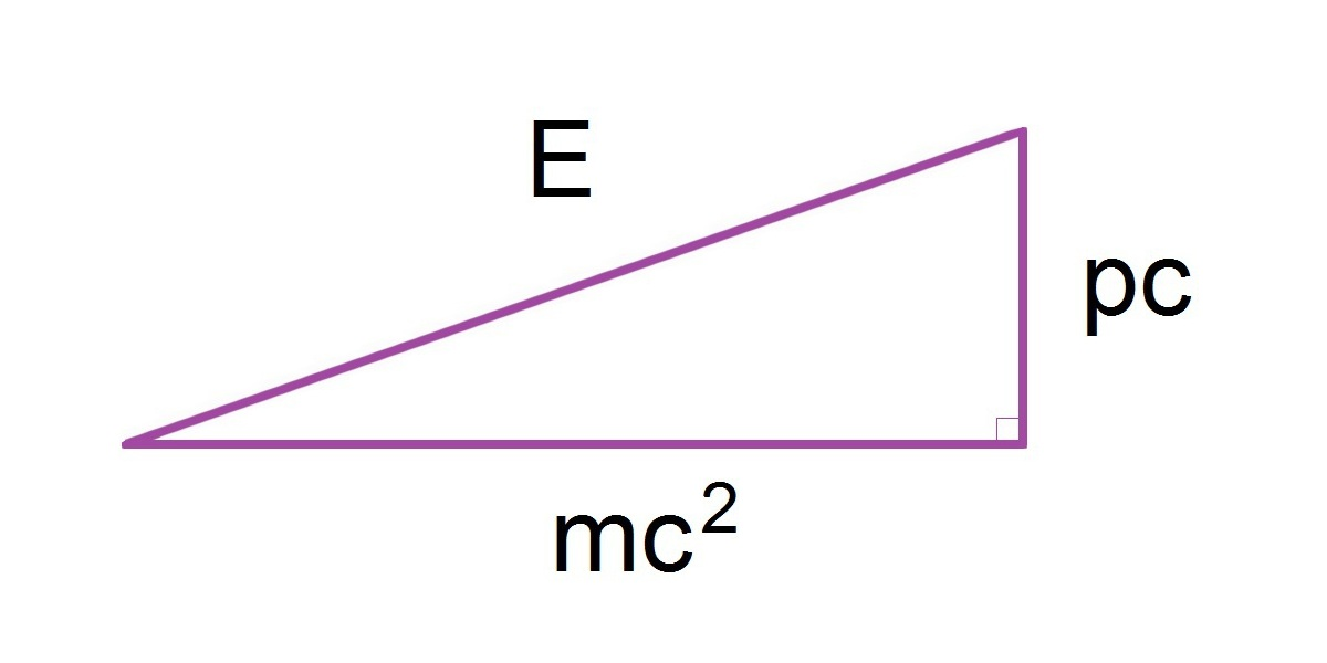 The relationship between Energy (E), Mass (m) and Momentum (p) of a body according to Einstein's Theory of Relativity illustrated in a Pythagorean format (where 'c' is the Speed of Light). This clearly shows how the popular equation, E = m c 2 {\displaystyle E=mc^{2}\;} , is the special case of being in the same reference frame as the body so that its momentum, hence its velocity, can be ignored (trinity can be reduced to a duality).